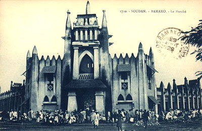 Old postcard of the Marché Rose in Bamako.